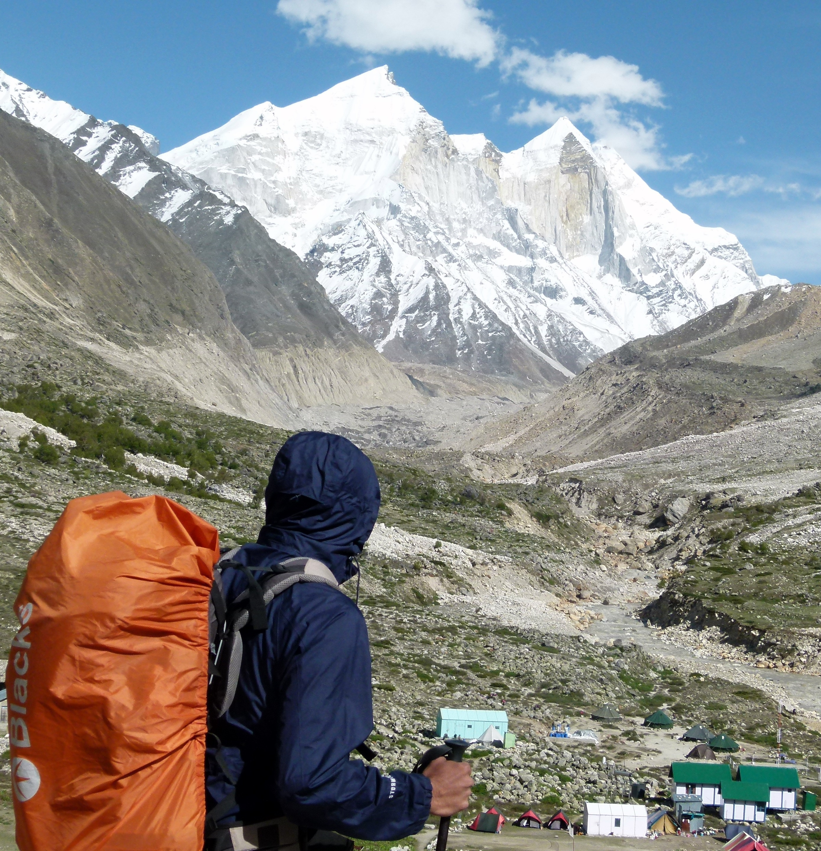 View of Bhagirath Peaks (Himalayas) from Bhojvasa, Gangotri National Park, Uttarakhand, India